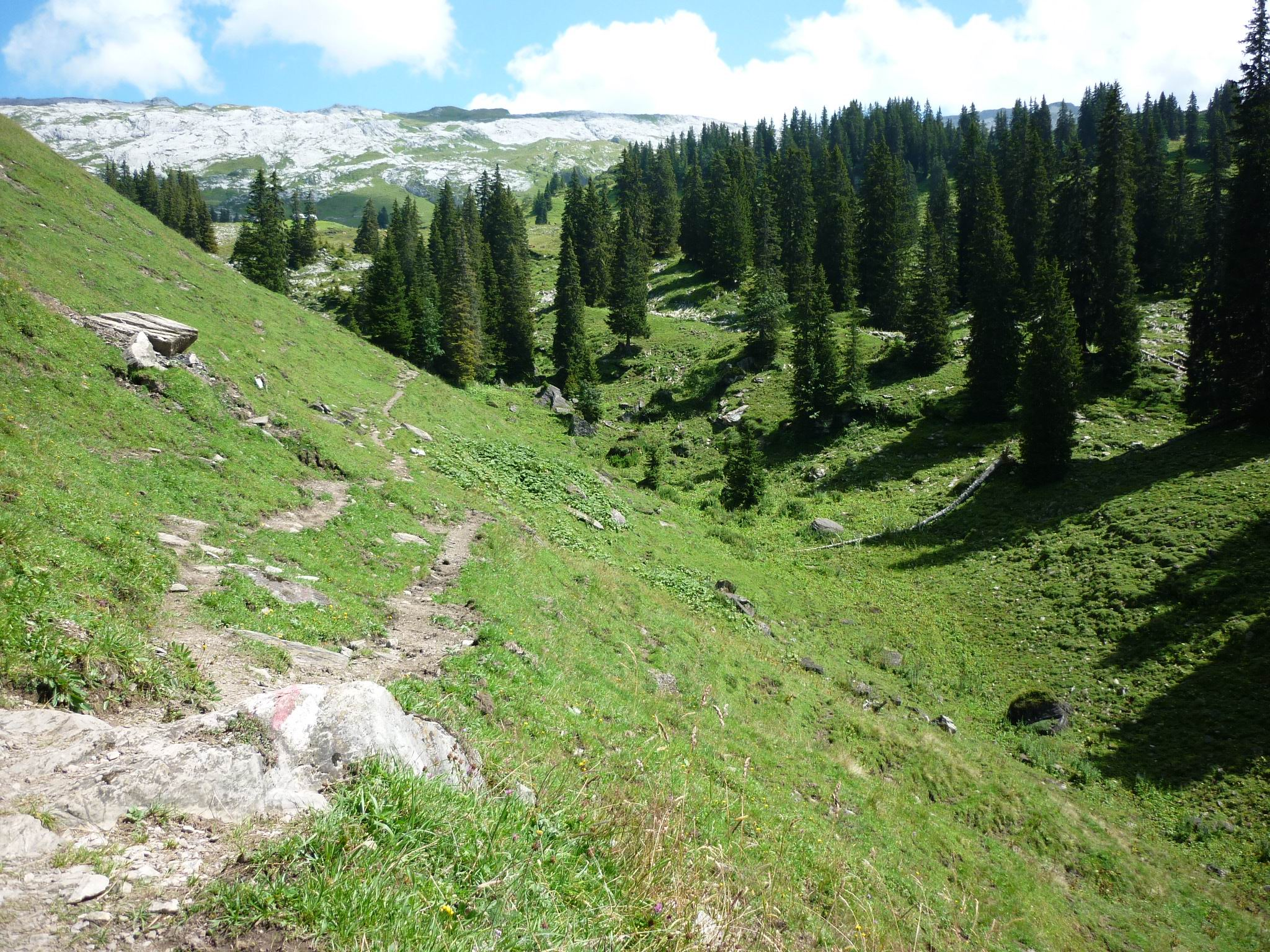 Muotatal valley SZ, Switzerland